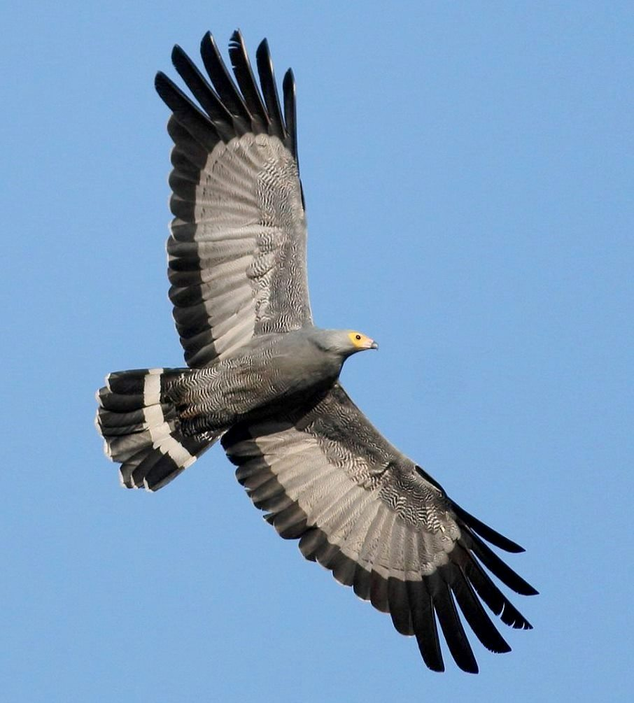 Gymnogene (Polyboroides typus) at Nooitgedacht, Magaliesberg, South Africa